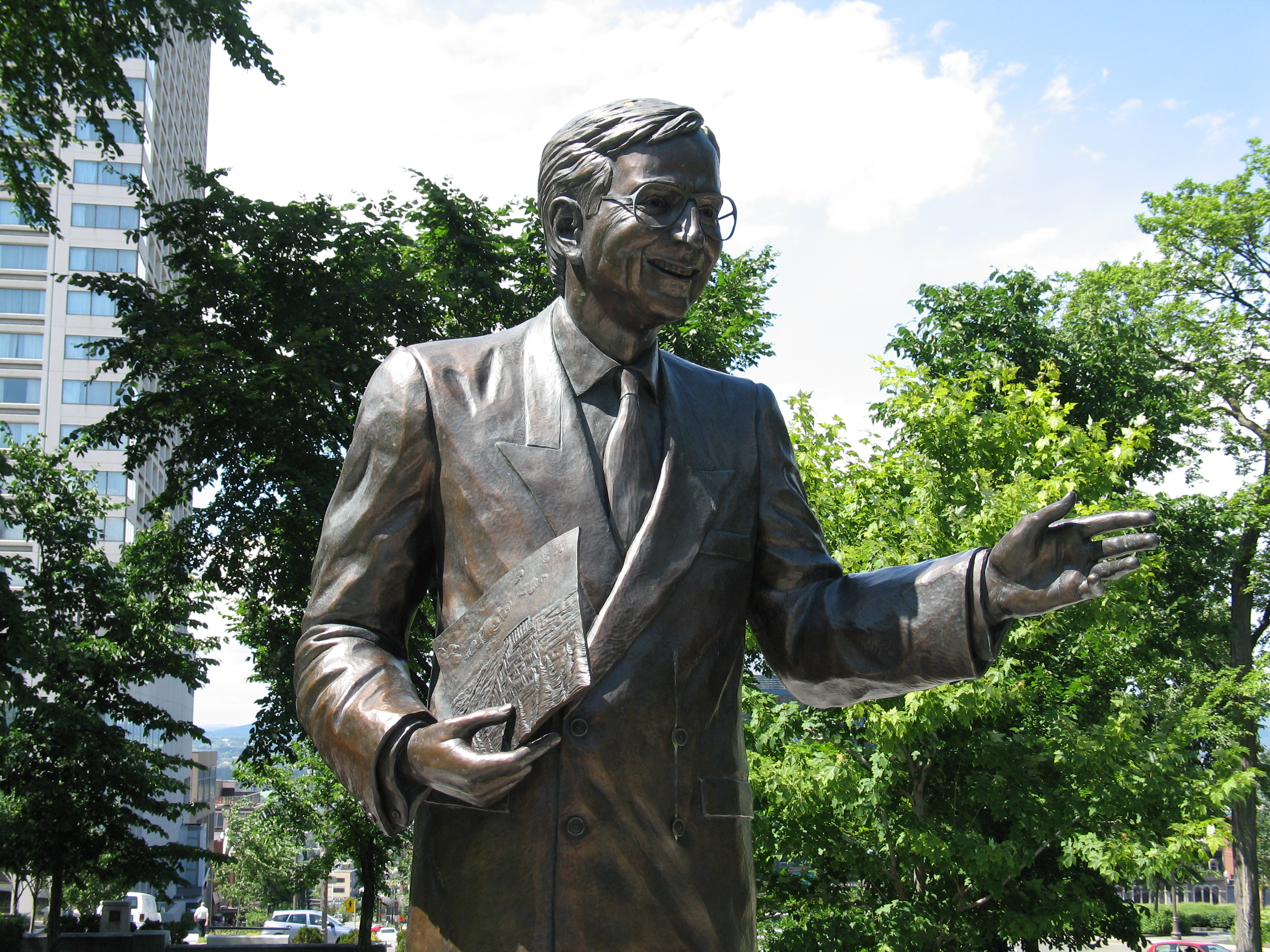 Statue of Robert Bourassa (1933-1996) in front of the National Assembly in Quebec City.